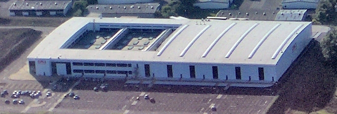 Aerial shot of OKI factory near Cumbernauld, Scotland.